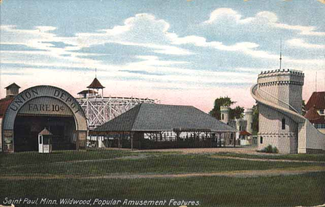 Wildwood Amusement Park (Washington County, Minnesota)